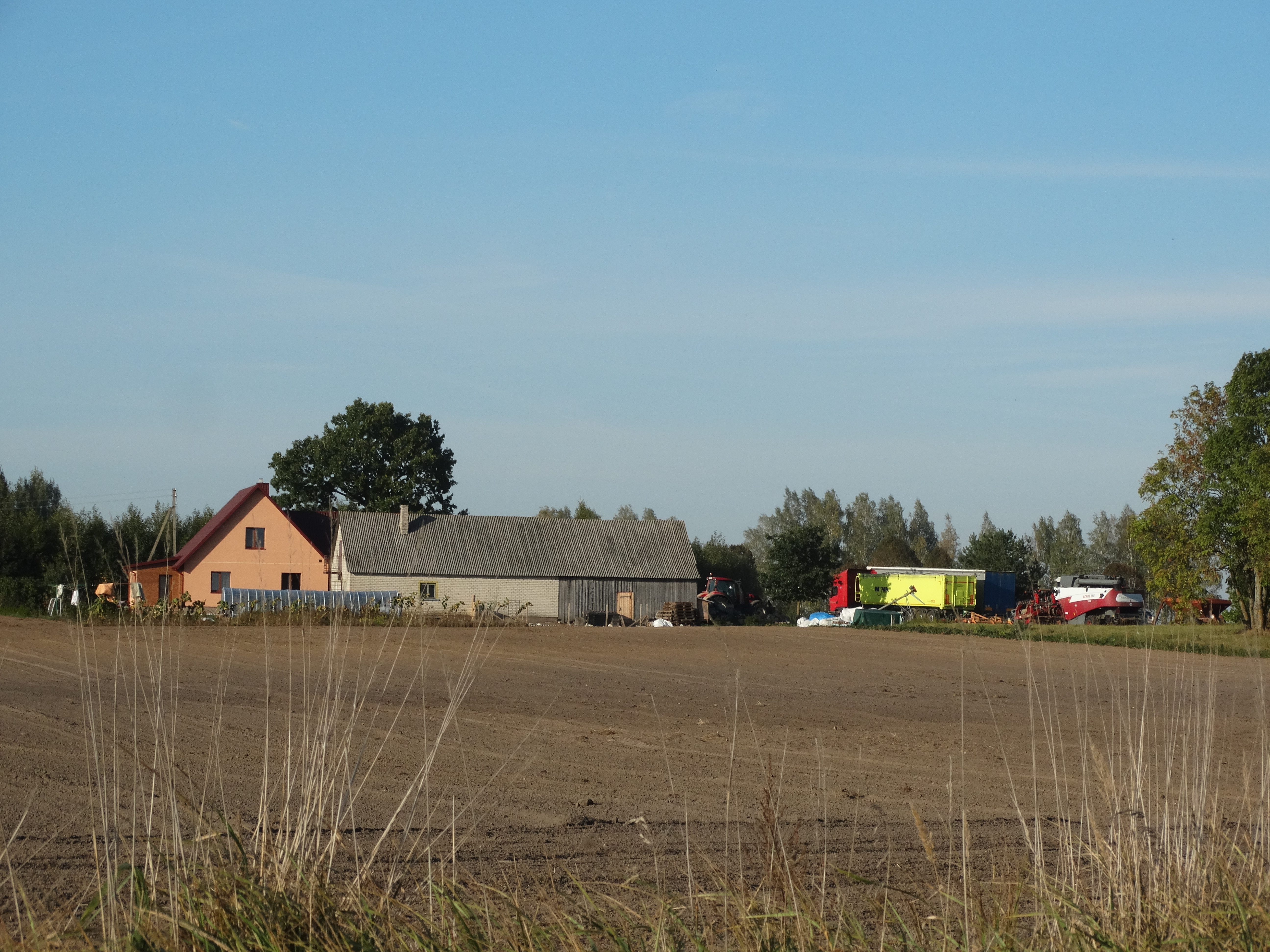 Kanopėnai, Raseiniai district, Lithuania